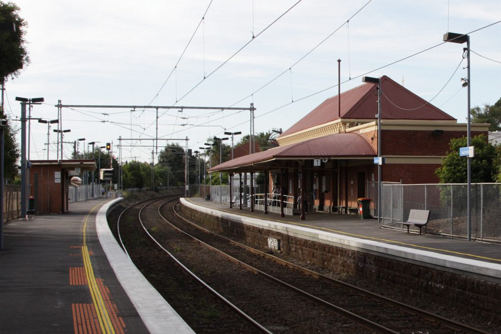 Overview from the city end of Ascot Vale railway station, Melbourne. To the right is the heritage station building on platform 1 for citybound trains, Craigieburn trains use platform 2 to the left.